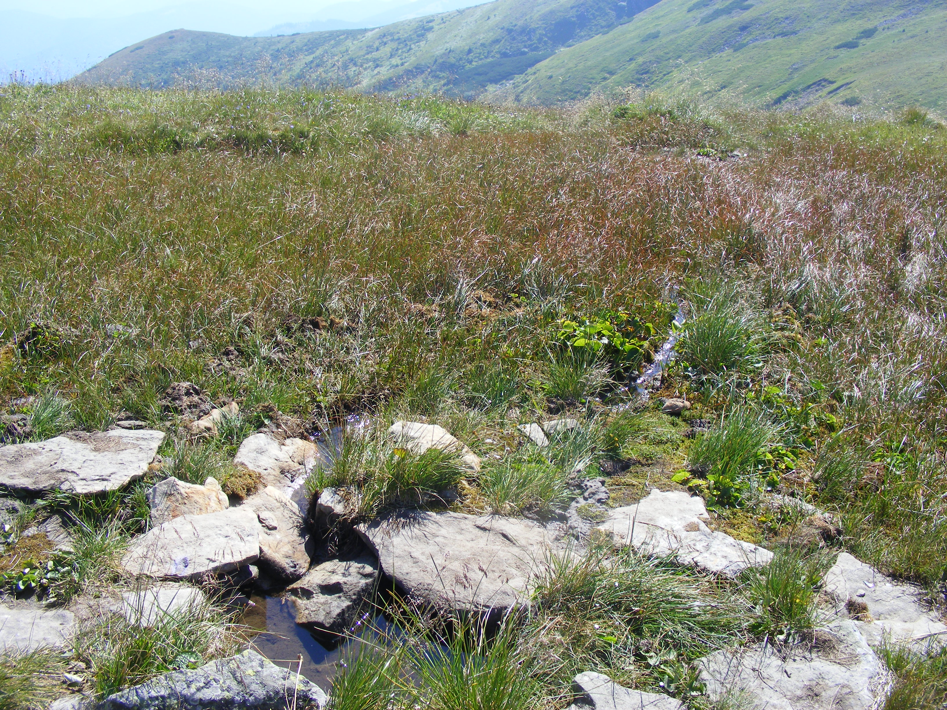 Source of river Prut at a slope of Hoverla mountain. Captured in August 2013.